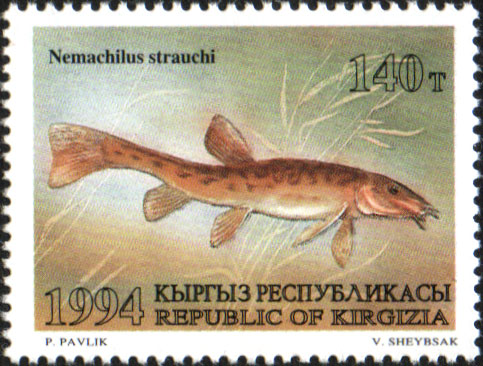 Triplophysa strauchii (syn. Nemachilus strauchi) on stamp of Kyrgyzstan